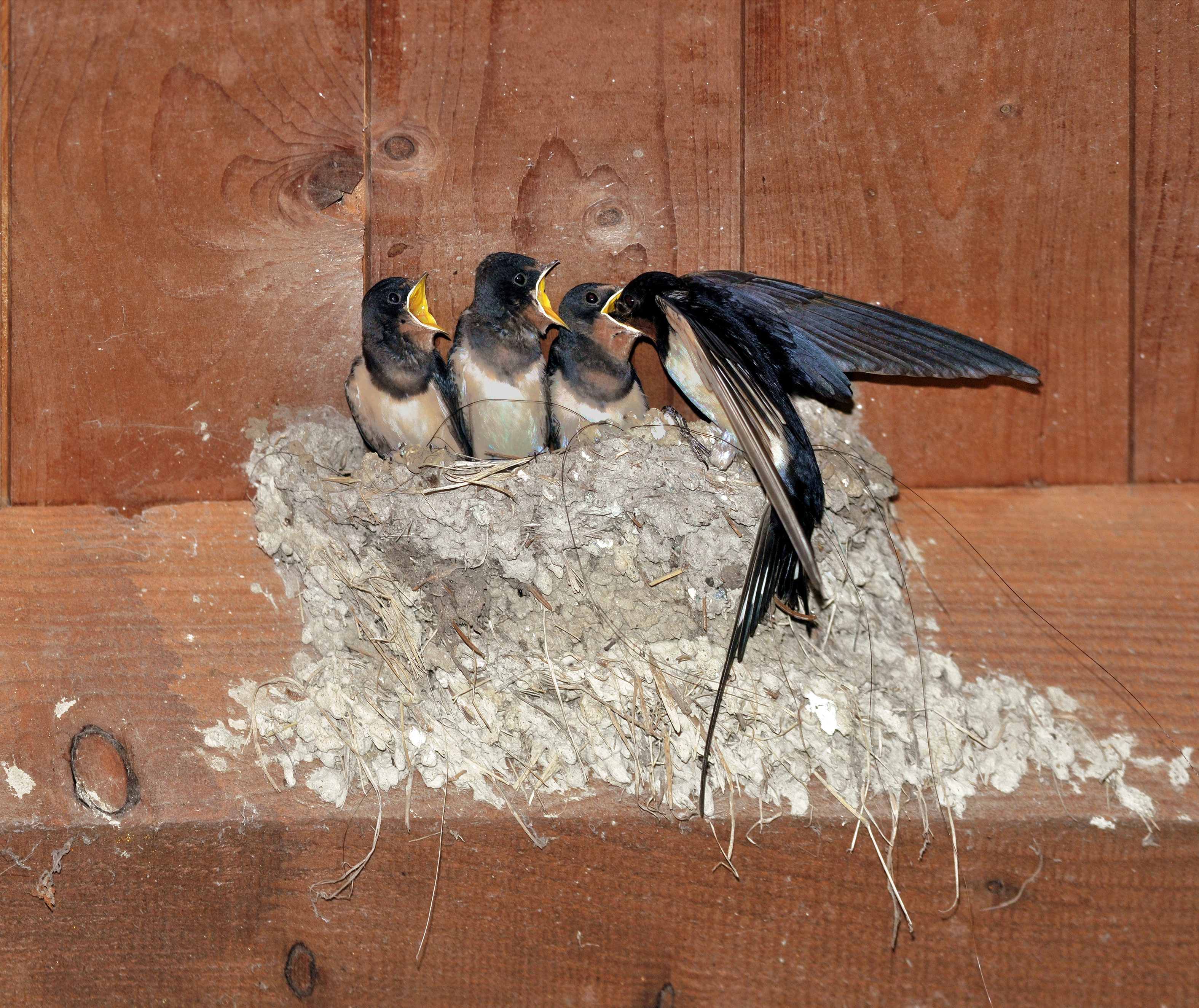 The image shows a barn swallow when feeding her young in the nest in the Wisentgehege Springe game park near Springe, Hanover, Germany. The barn swallow (Hirundo rustica) is the most widespread species of swallow in the world. It is a distinctive passerine bird with blue upperparts, a long, deeply forked tail and curved, pointed wings. It is found in Europe, Asia, Africa and the Americas.